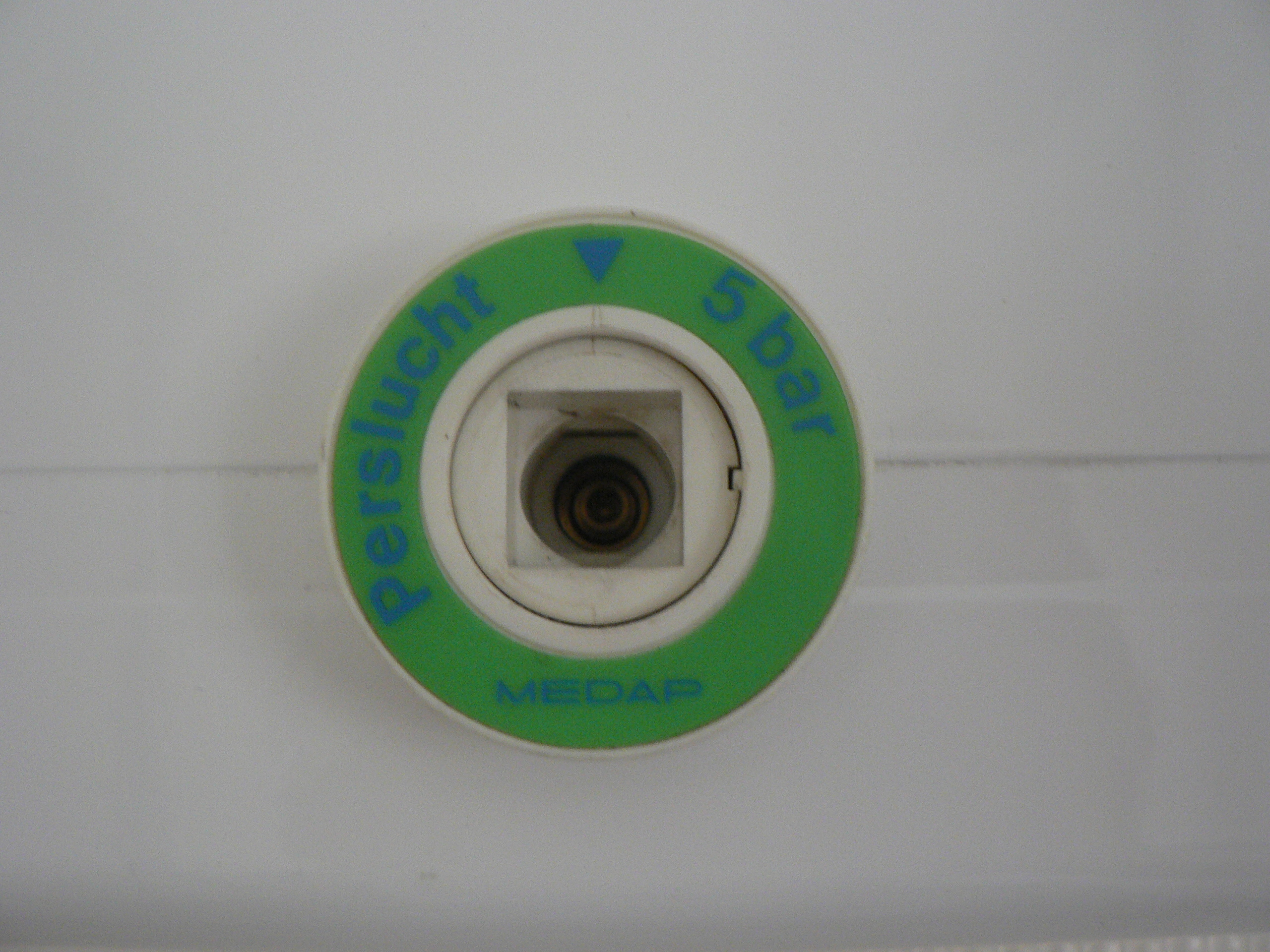 pressurised air